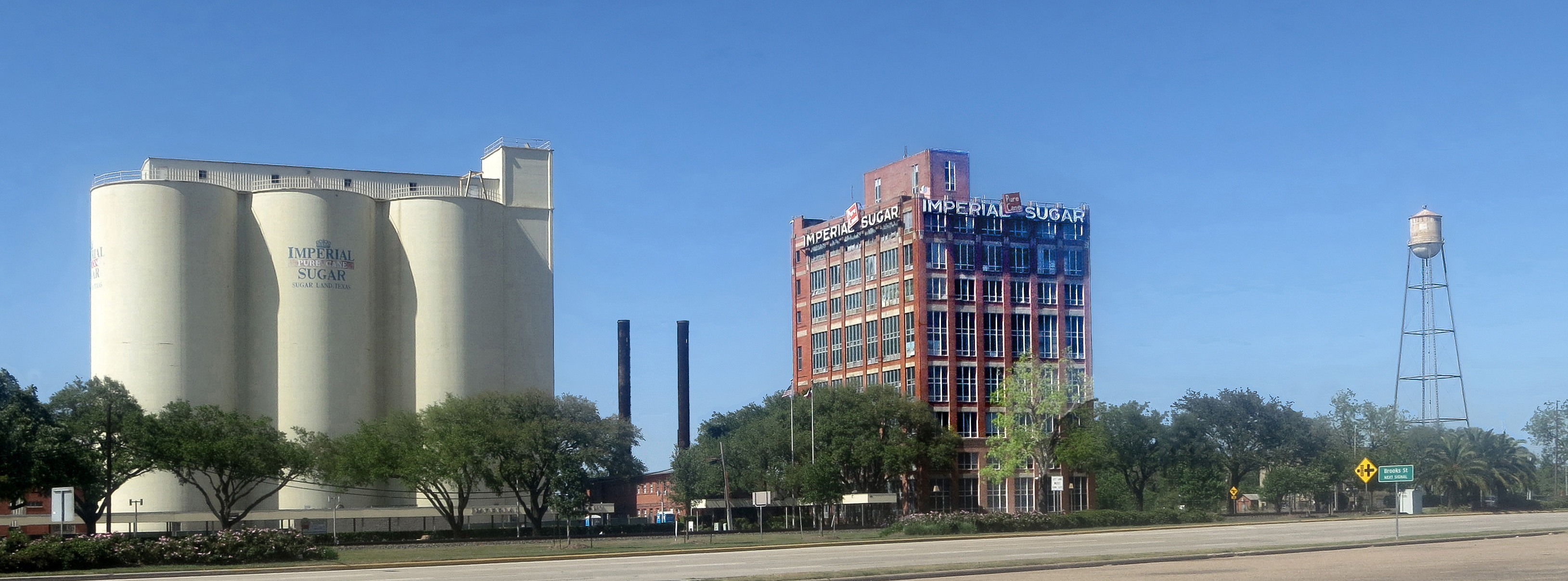 The Sugar Land Refinery. Stephen F. Austin's colonists brought sugar cane to Fort Bend County in the 1820s. The Sugar Land area was once part of Oakland Plantation, where Nathaniel and Matthew Williams planted sugar cane about 1840. They began processing the cane in 1843 using a horse-powered mill and open-air cooking kettles. In 1853 the plantation and mill were purchased by William J. Kyle and Benjamin F. Terry. They improved the mill and promoted a railroad for the area, which they named Sugar Land. Terry later helped organize the famed Confederate cavalry unit, Terry's Texas Rangers, and was killed in the Civil War. After the war, the operation was sold to Edward H. Cunningham, who expanded the sugar mill into a refinery. W. T. Eldridge and Galveston businessman I. H. Kempner, Sr. bought the refinery in 1907. They began importing raw sugar to operate the refinery year-round because local cane was available only seasonally and in decreasing quantities in the early 1900s. Named by Kempner for the Imperial Hotel in New York City, the Imperial Sugar Company and the City of Sugar Land have grown steadily. During the 1970s, the Imperial Sugar Company produced more than three million pounds of refined cane sugar daily.